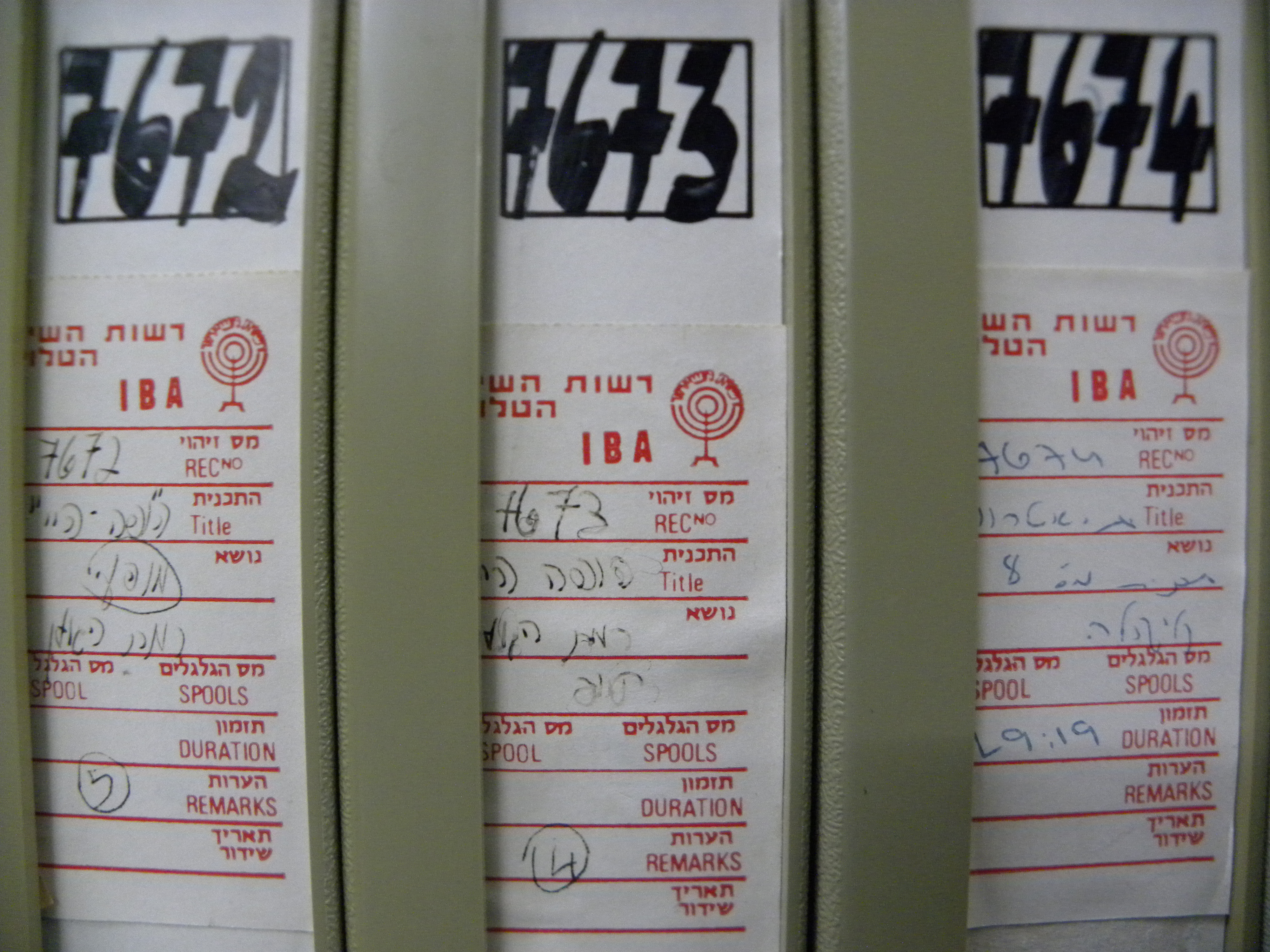 Israel Broadcasting Authority's archive of television recordings